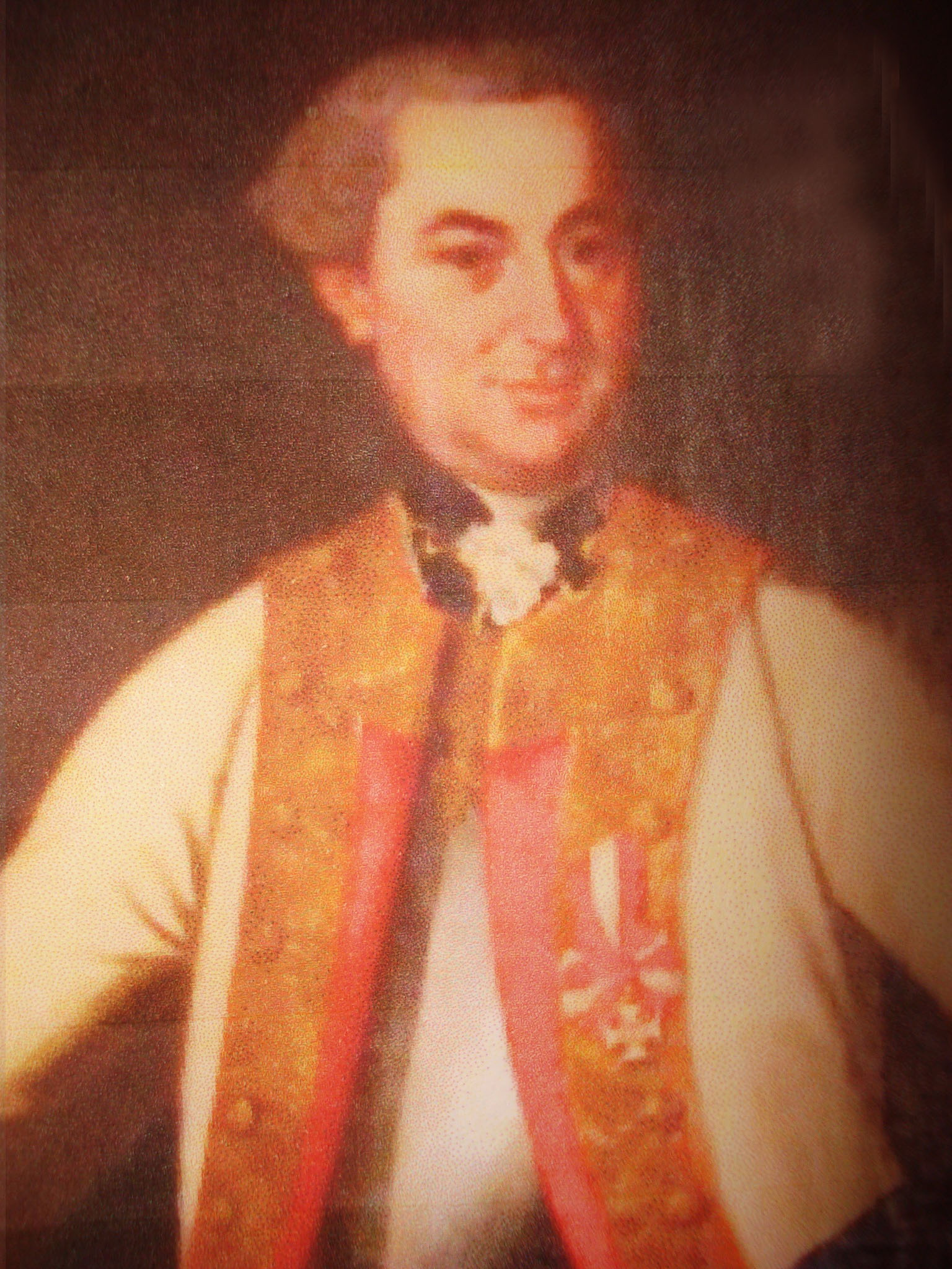 Baron Josip Šišković /Joseph Siskovich/ (1719-1783), general /Feldzeugmeister/ of the Habsburg Monarchy imperial army of Croatian descent, recipient of the Commander's Cross of the Military Order of Maria Theresa